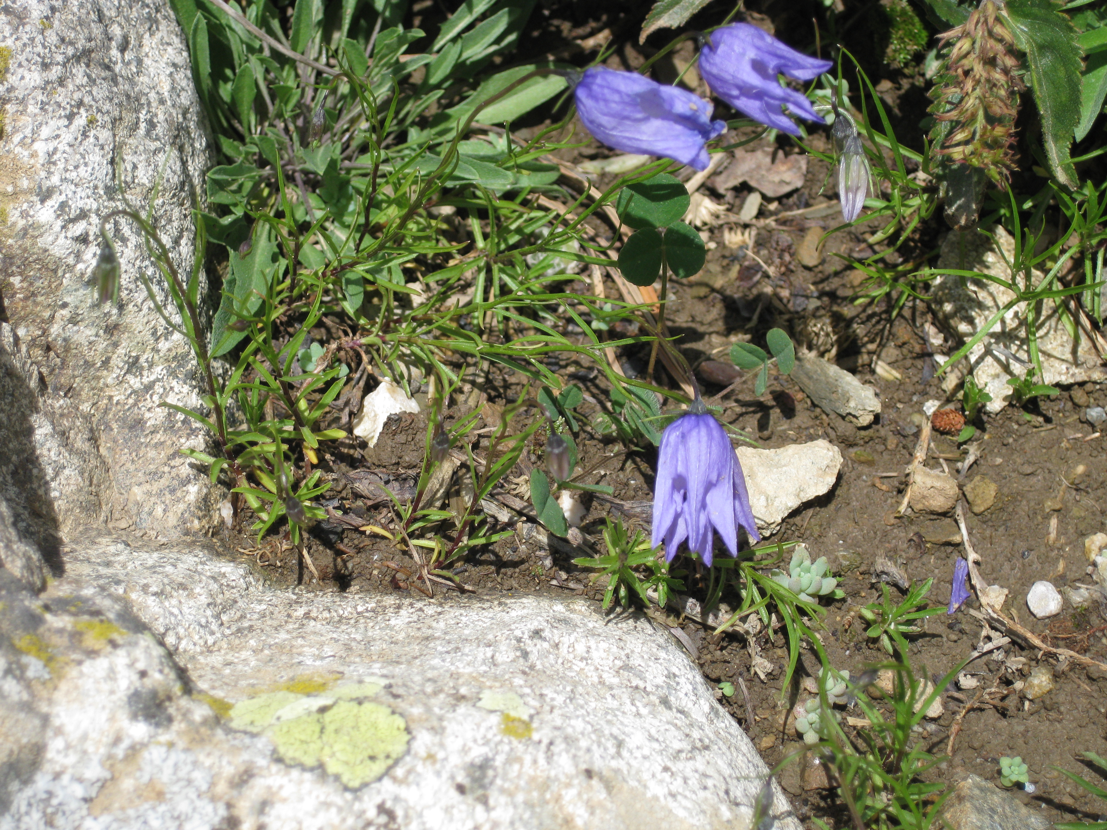 Campanula excisa in the Jardin Botanique Alpin du Lautaret